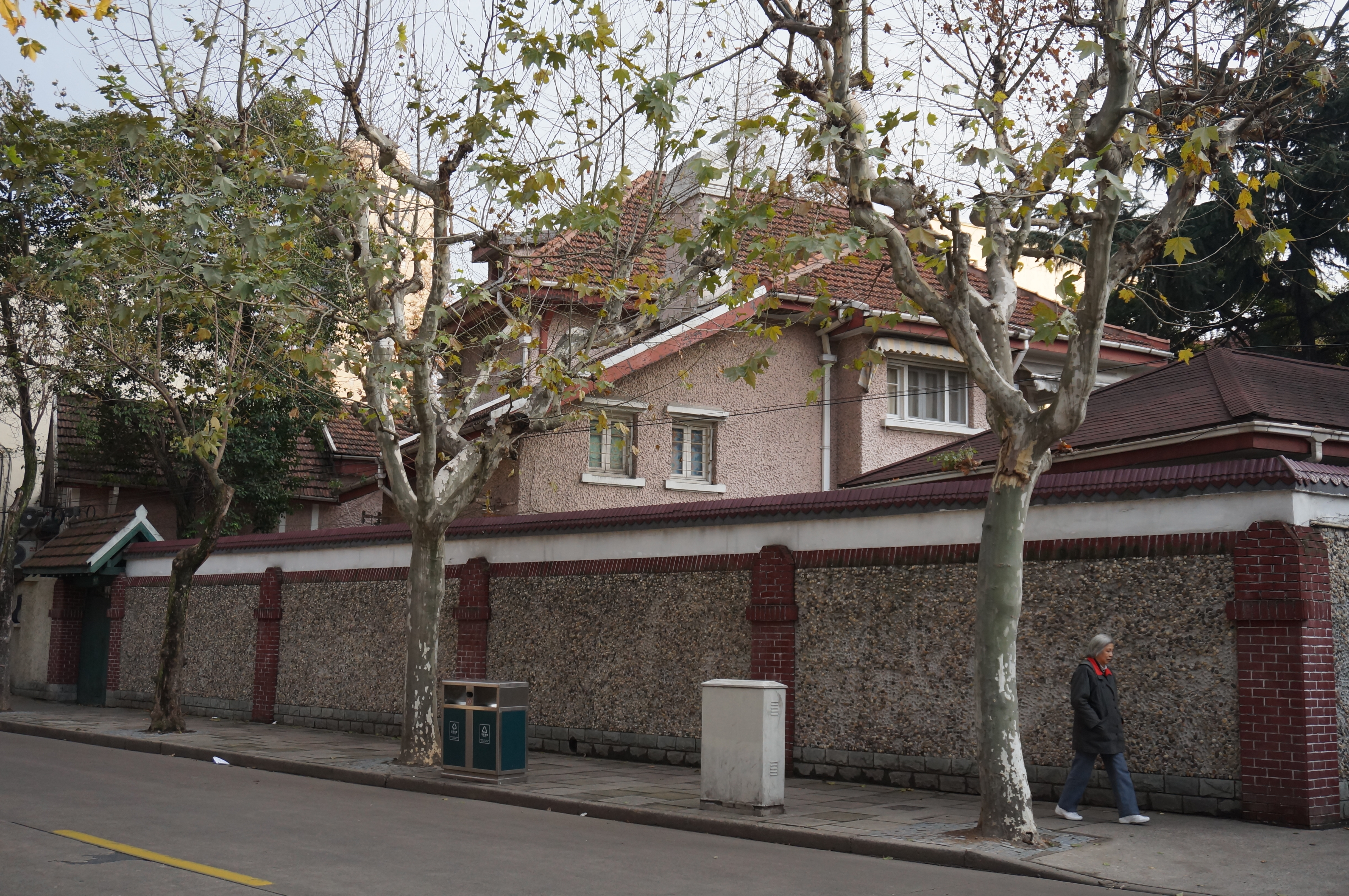 上海市第三批优秀历史建筑-永嘉路571号